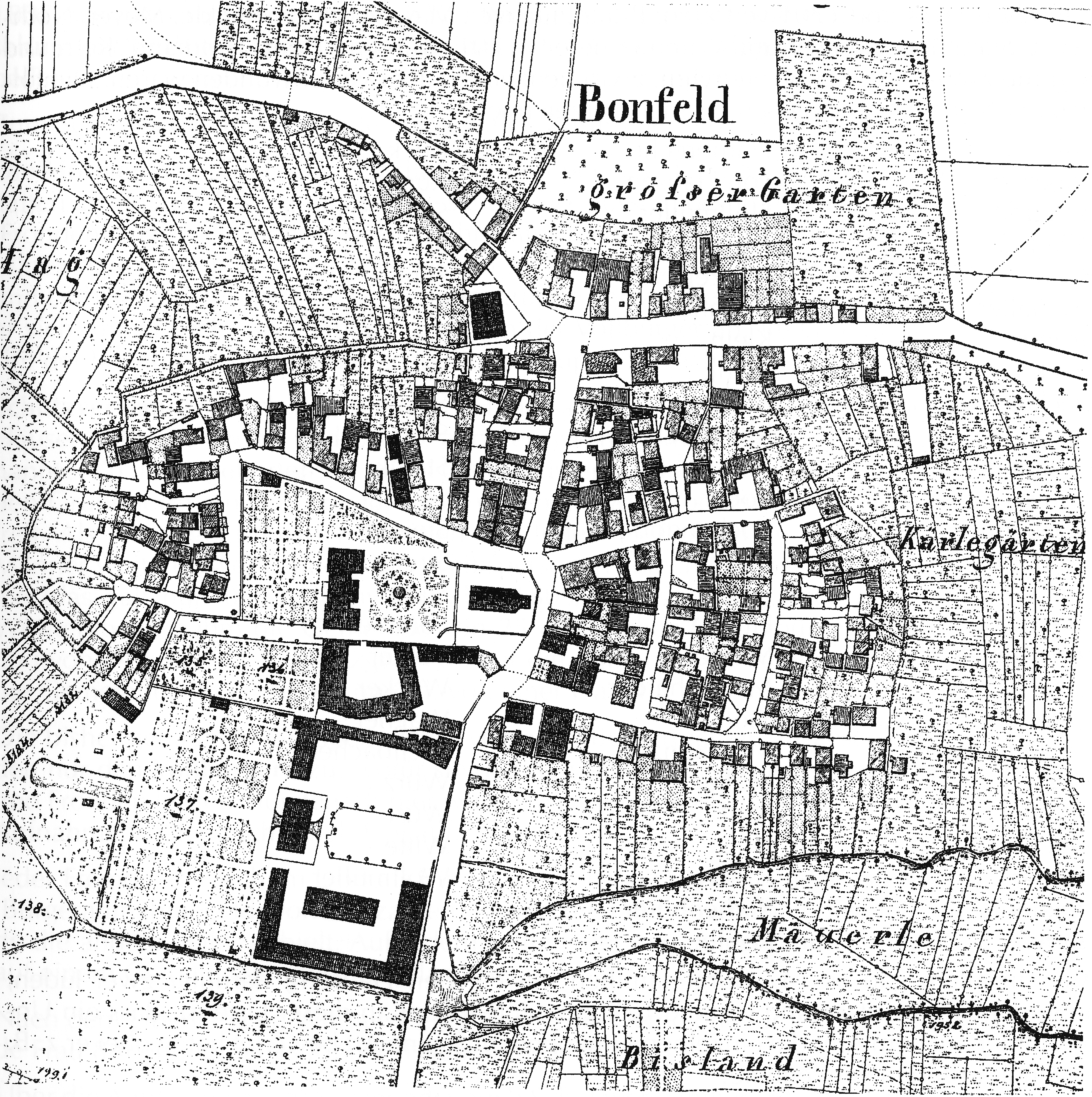 Map of the village Bonfeld (Baden-Württemberg, Germany) from the 19th century, probably a part of the Württembergische Flurkarte 1:2.5000, which was created about 1830. Reproduction after Heimatbuch Bonfeld (2000), fig. 119 on page 205. (There are no copyright problems, because the reproduction in the Heimatbuch is a simple reproduction which does not create any copyright, and the creator of the original map is definitely dead for more than 100 years.)